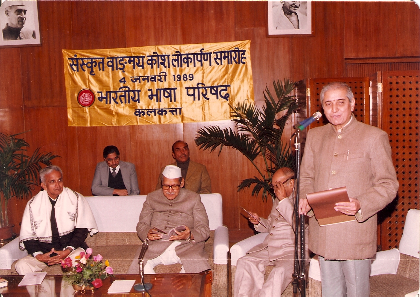 Panduranga Rao, DIrector, Bharatiya Bhasha Parishad, Kolkata with the President of India, Dr. Shankar Dayal Sharma at the launching of Sanskrit Encyclopaedia